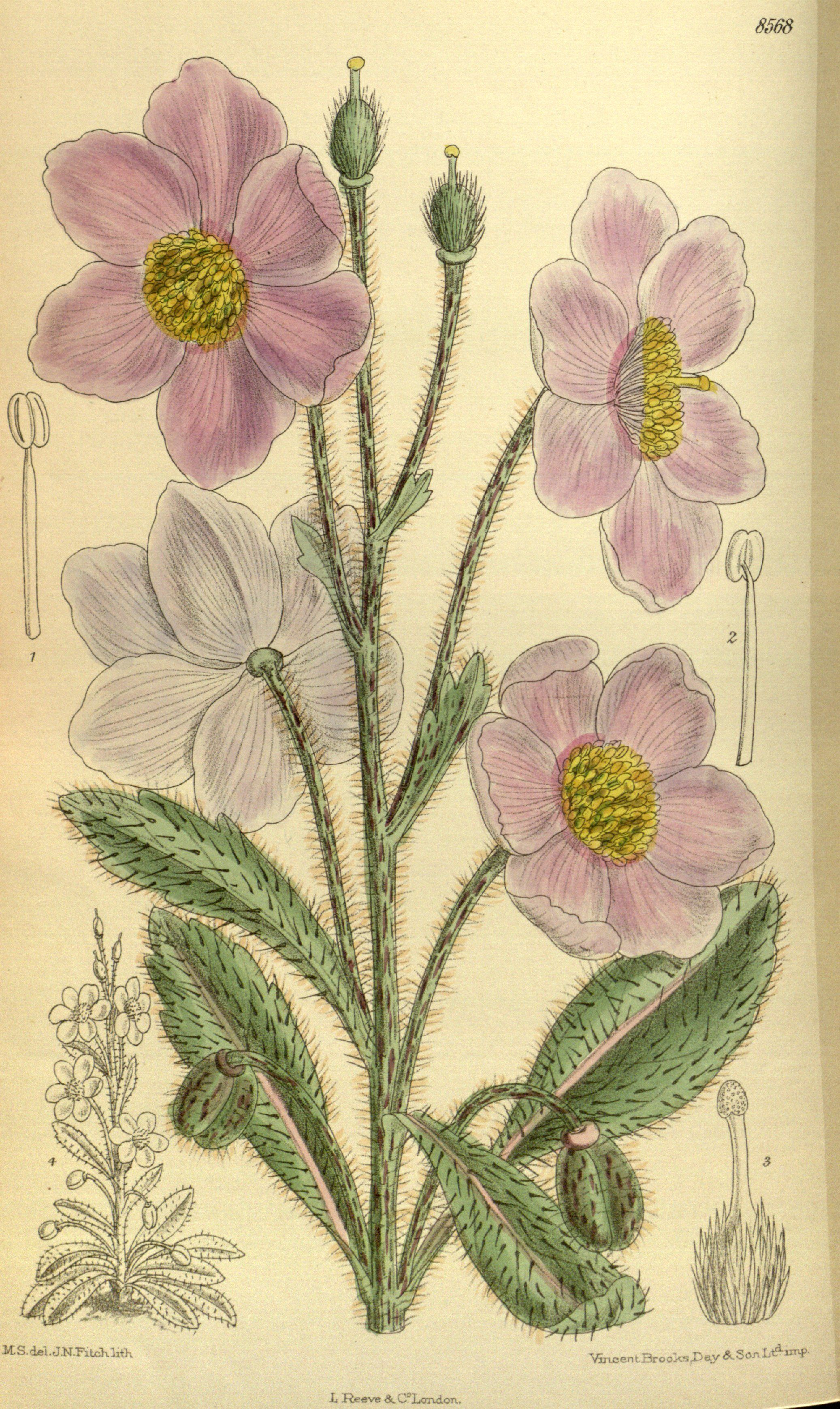 Meconopsis rudis, Papaveraceae